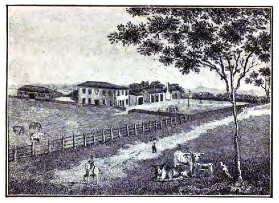 Red House Farm, McGraths Hill, New South Wales, Australia